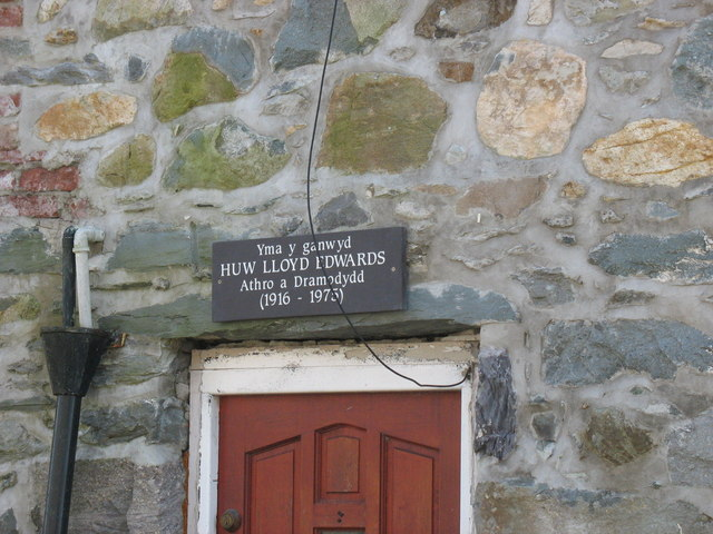 The Hugh Lloyd Edwards memorial tablet on Siop Gron Hugh Lloyd Edwards, teacher, socialist and playwright was born at Siop Gron in 1916.